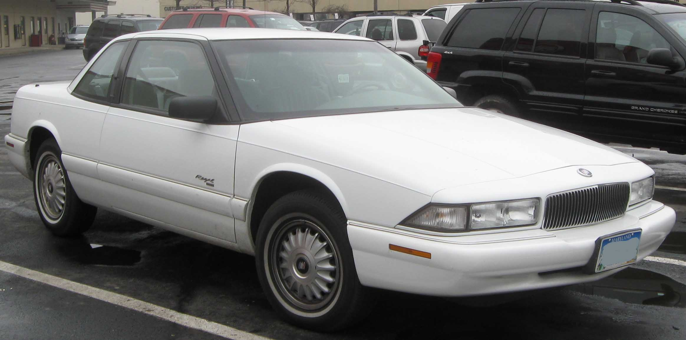 Buick Regal photographed in Wheaton, Maryland, USA.